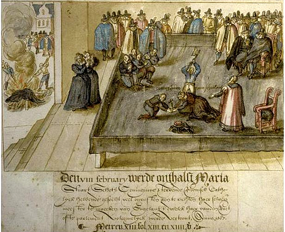 The execution of Mary, Queen of Scots, on 8 February 1587 at Fotheringhay Castle, Northamptonshire, England.